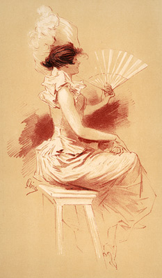 Cheret, Jules - Woman with Fan (lithograph, 1896)